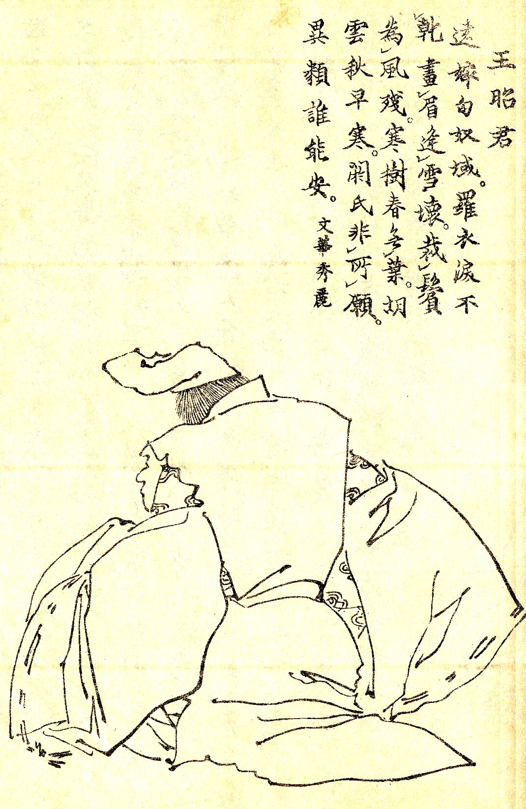 Asano no Katori(朝野鹿取) was a japanese court noble and scholar in Heian period.